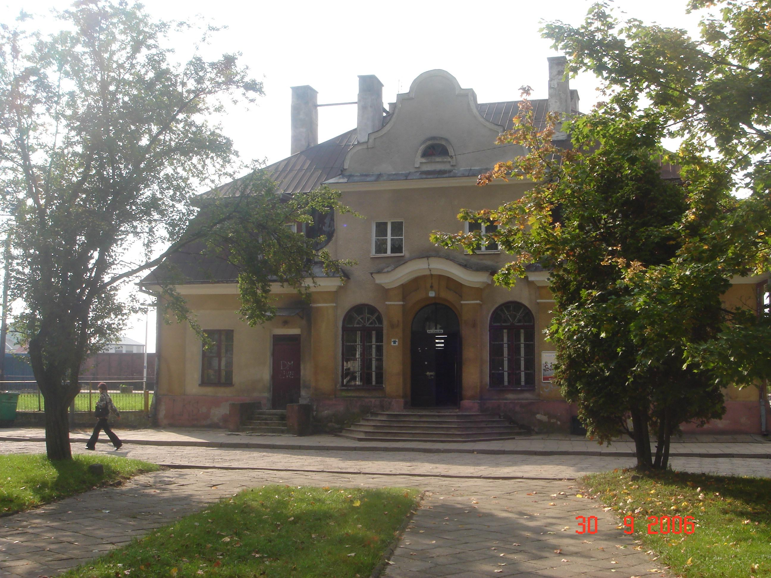 this photo shows the railway station in Mońki (poland)